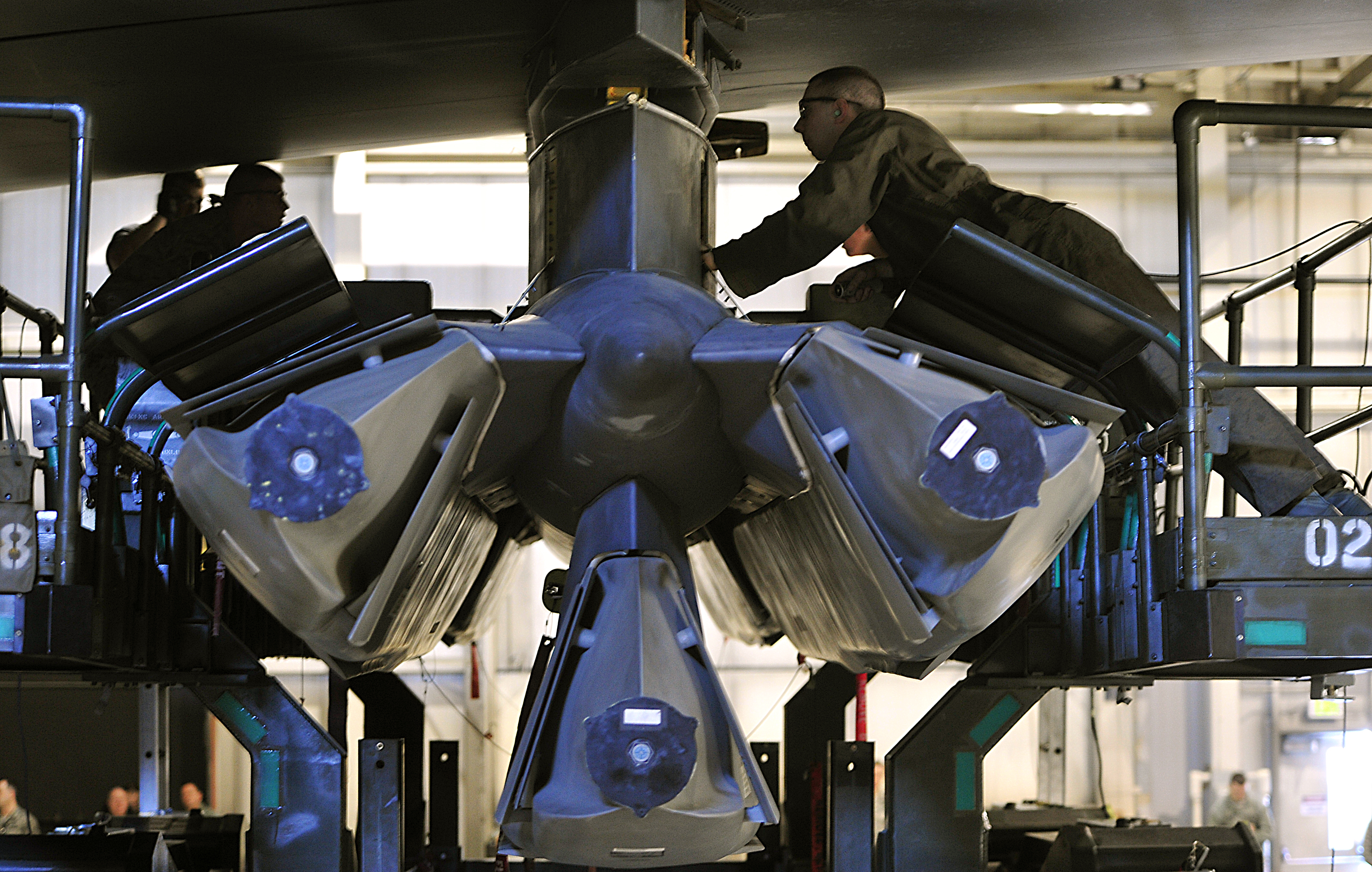 Loading an AGM-86 ALCM on a B-52 Stratofortress at Minot Air Force Base.